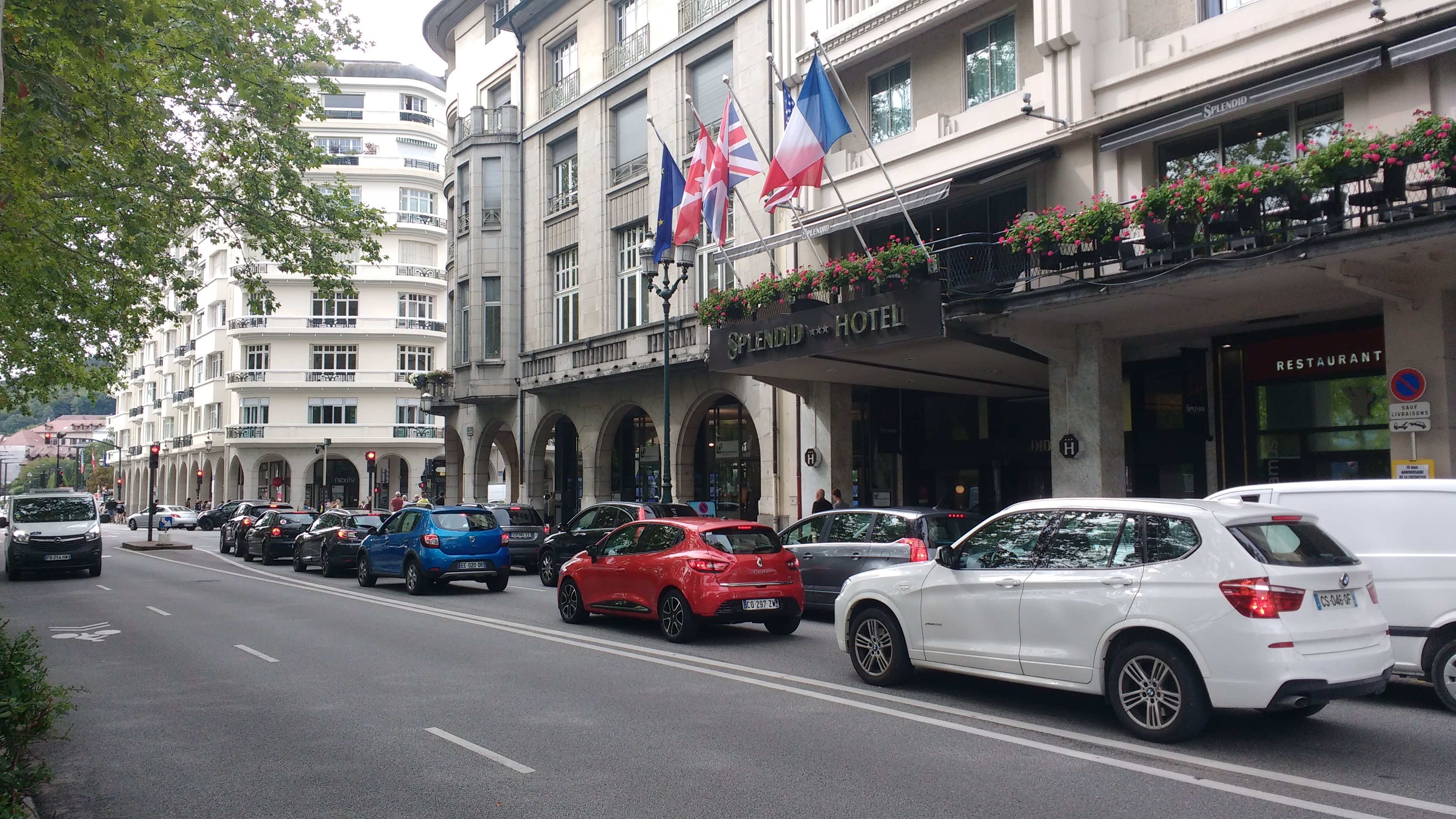 Annercy